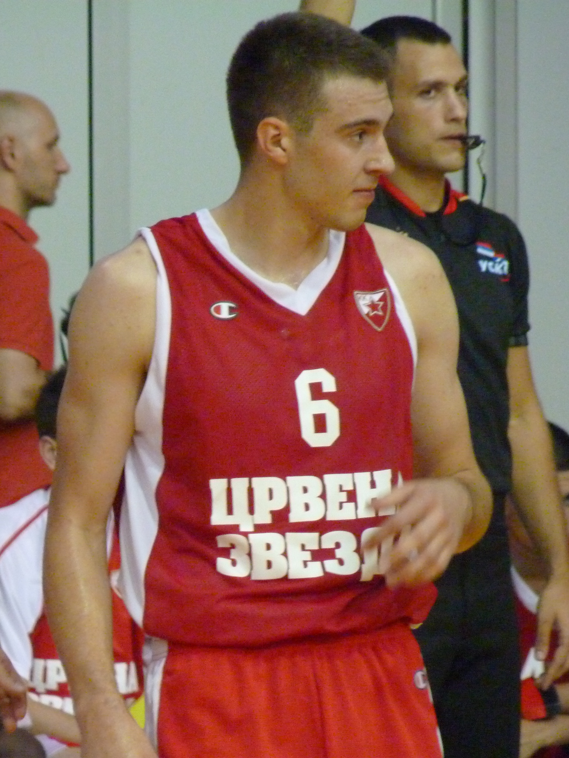 Marko Gudurić, basketball player of KK Crvena zvezda